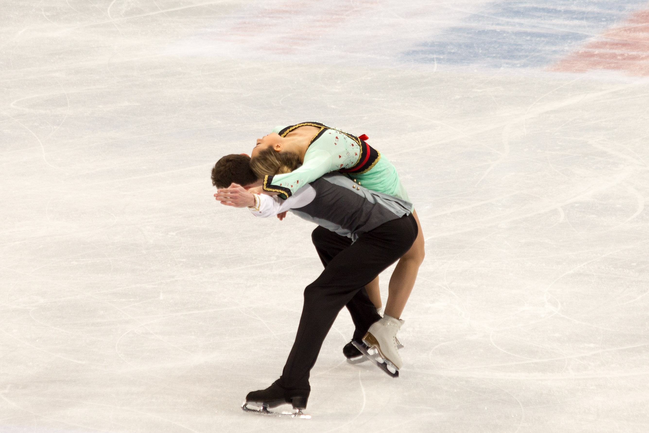 Lola Esbrat/Andrei Novoselov (FRA) take their opening pose in the short program at the 2017 World Figure Skating Championships